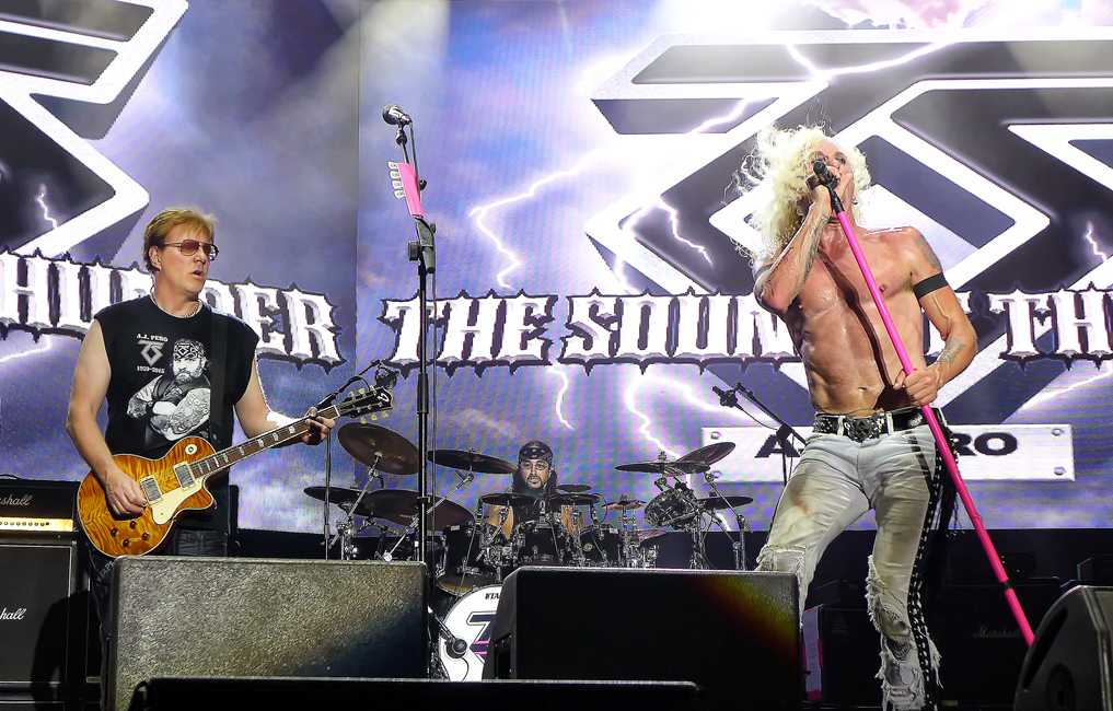 Twisted Sister, live RockFest Barcelona, 24/7/2015